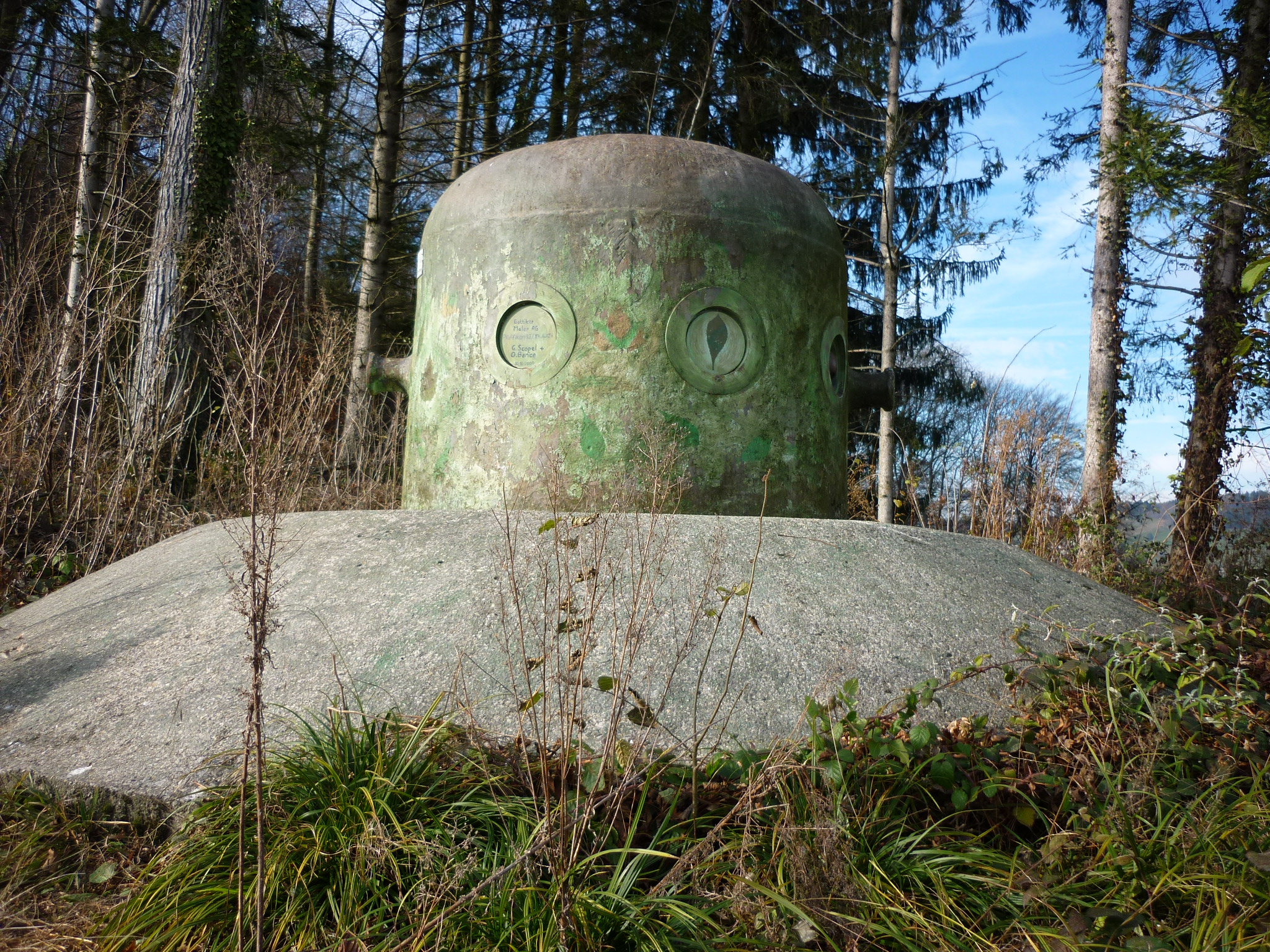 Artillery surveillance bunker, Grynau, Switzerland